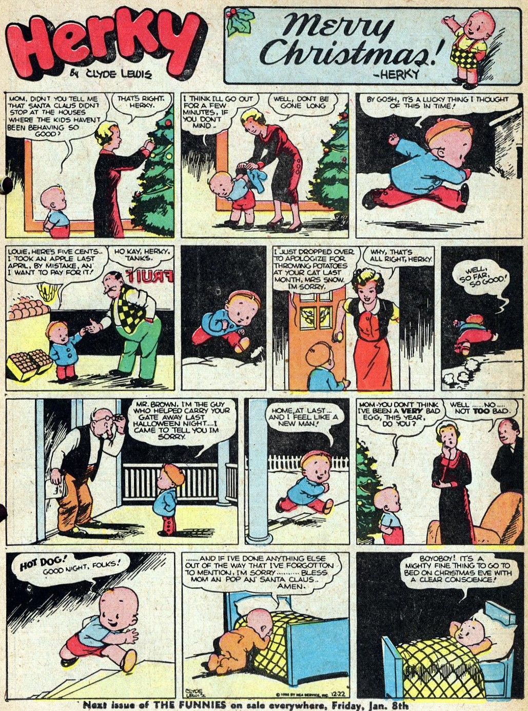 Herky comic on page 51 of The Funnies #4